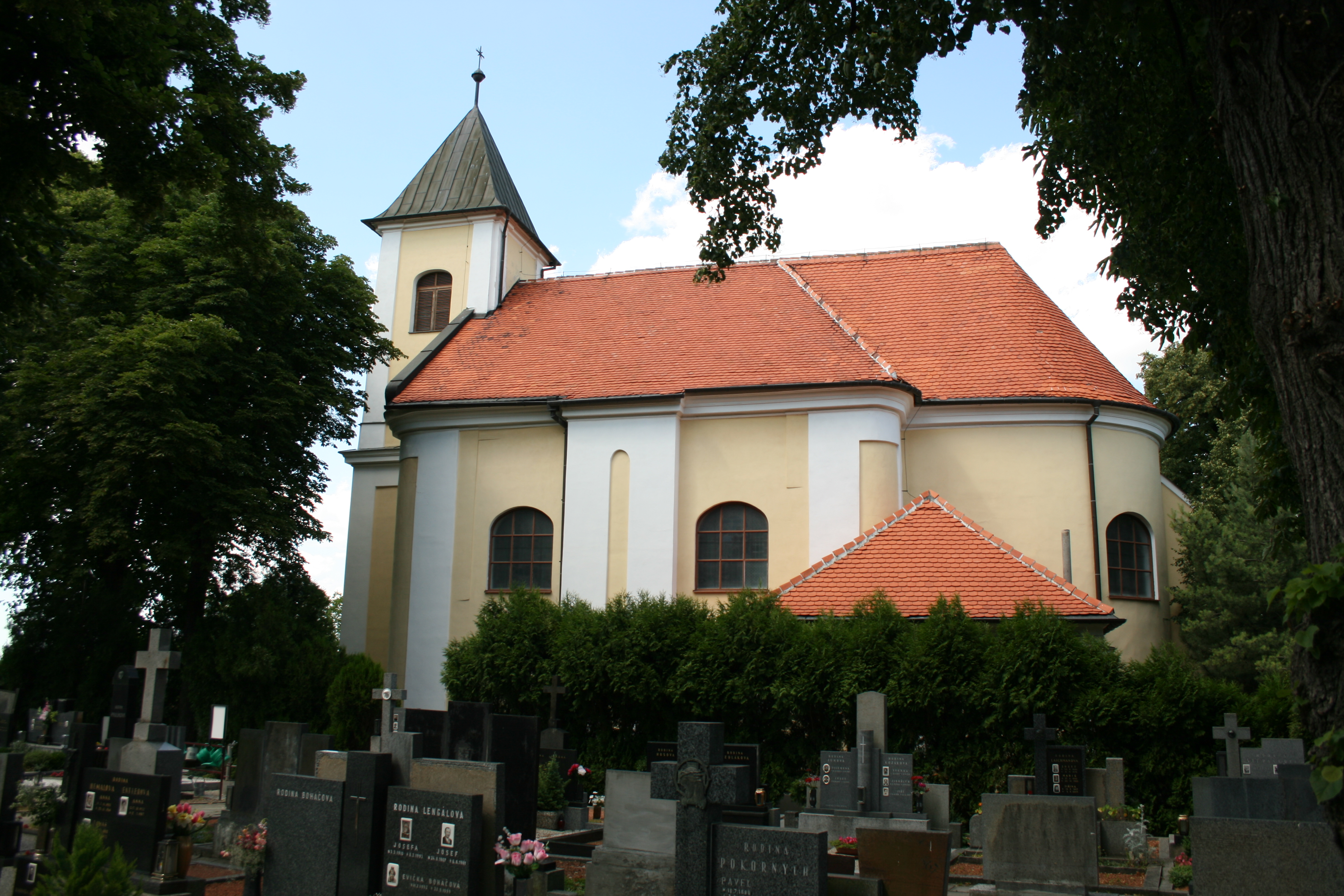 Church of the Elevation of the Cross in Prace.